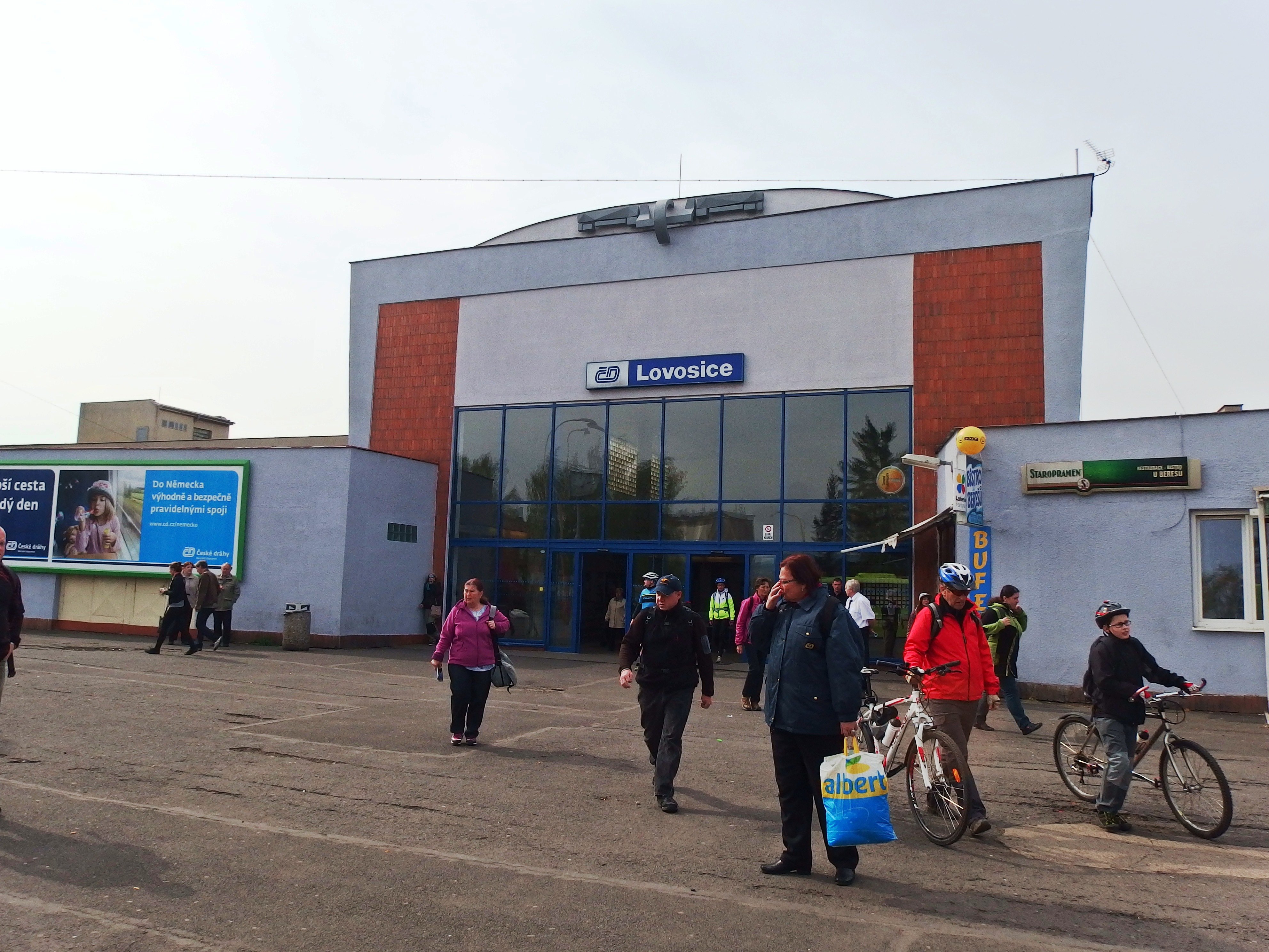 Lovosice, Litoměřice District, Czech Republic. Train station.